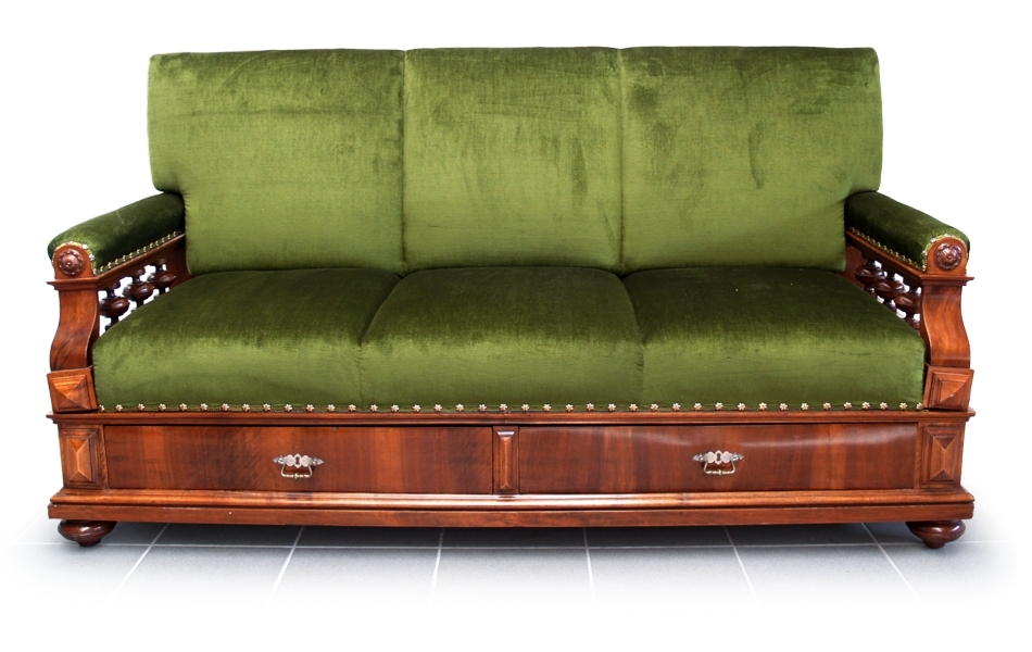 Sofa bed, c. 1880